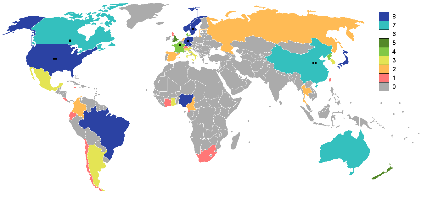 FIFA Women's World Cup – Number of appearances and host - 2019